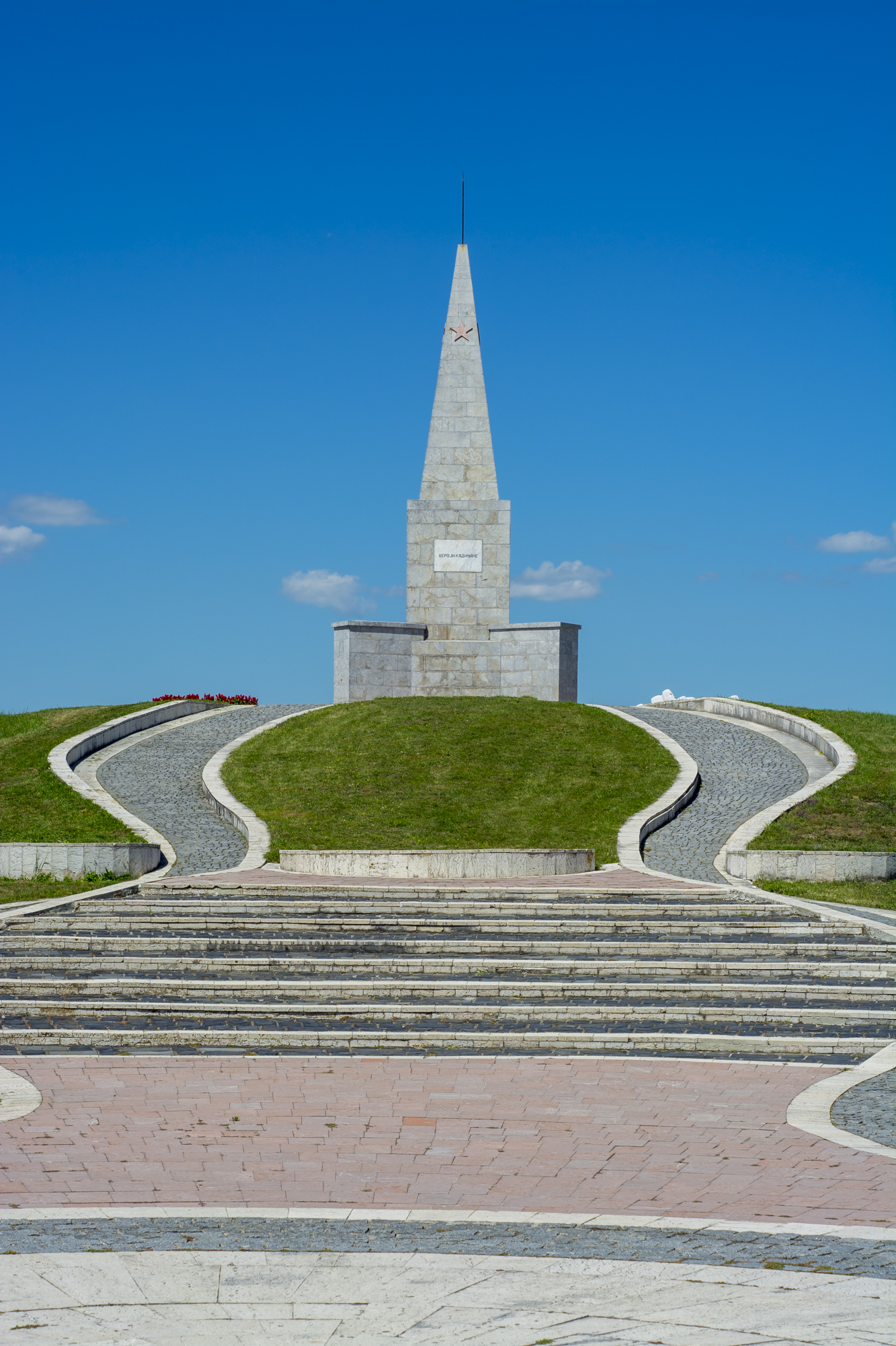 Photo of the Kadinjača monument in western Serbia.